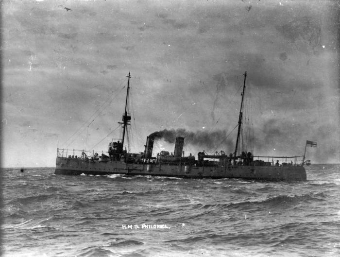 Photograph of British cruiser HMS Philomel.